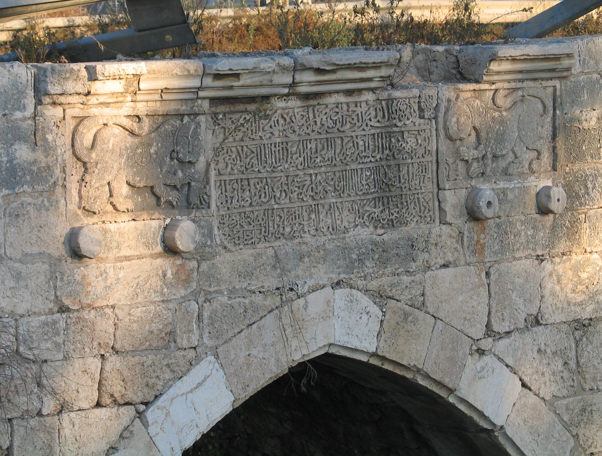 The "Baibars bridge" in Lod, Israel. Eastern side - lion reliefs.